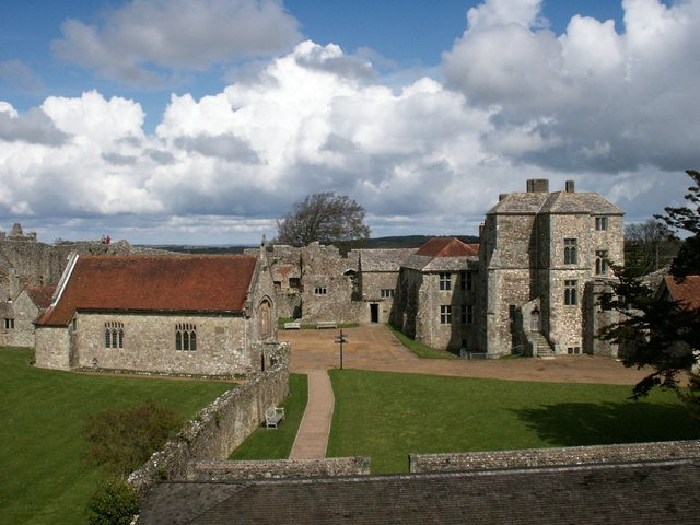 Carisbrooke Castle Looking from the southern wall of the Castle into the centre of the Castle grounds.